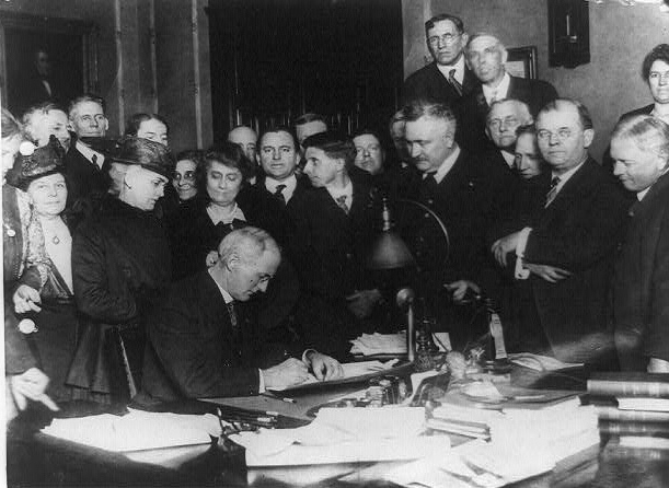 Governor James P. Goodrich of Indiana, surrounded by prominent "dry" workers, signing the state-wide prohibition bill to take effect April 2, 1918.